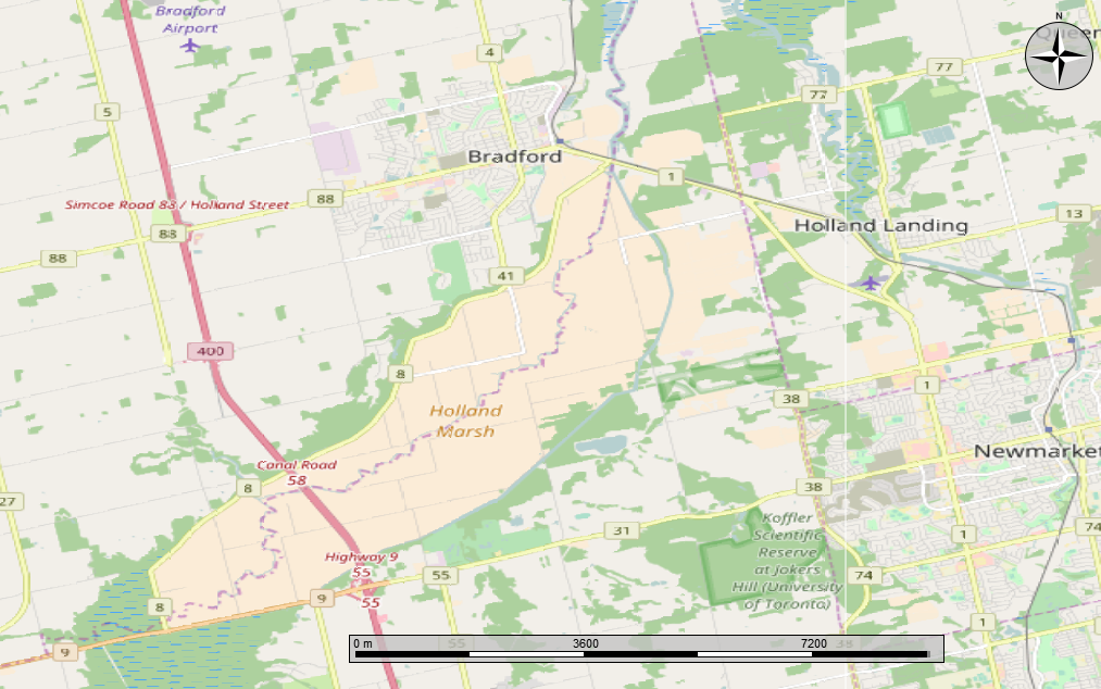 Open Street Map showing the extent of the Holland Marsh. Made using version 1.5 of the Marble program. cropped by the uploader.